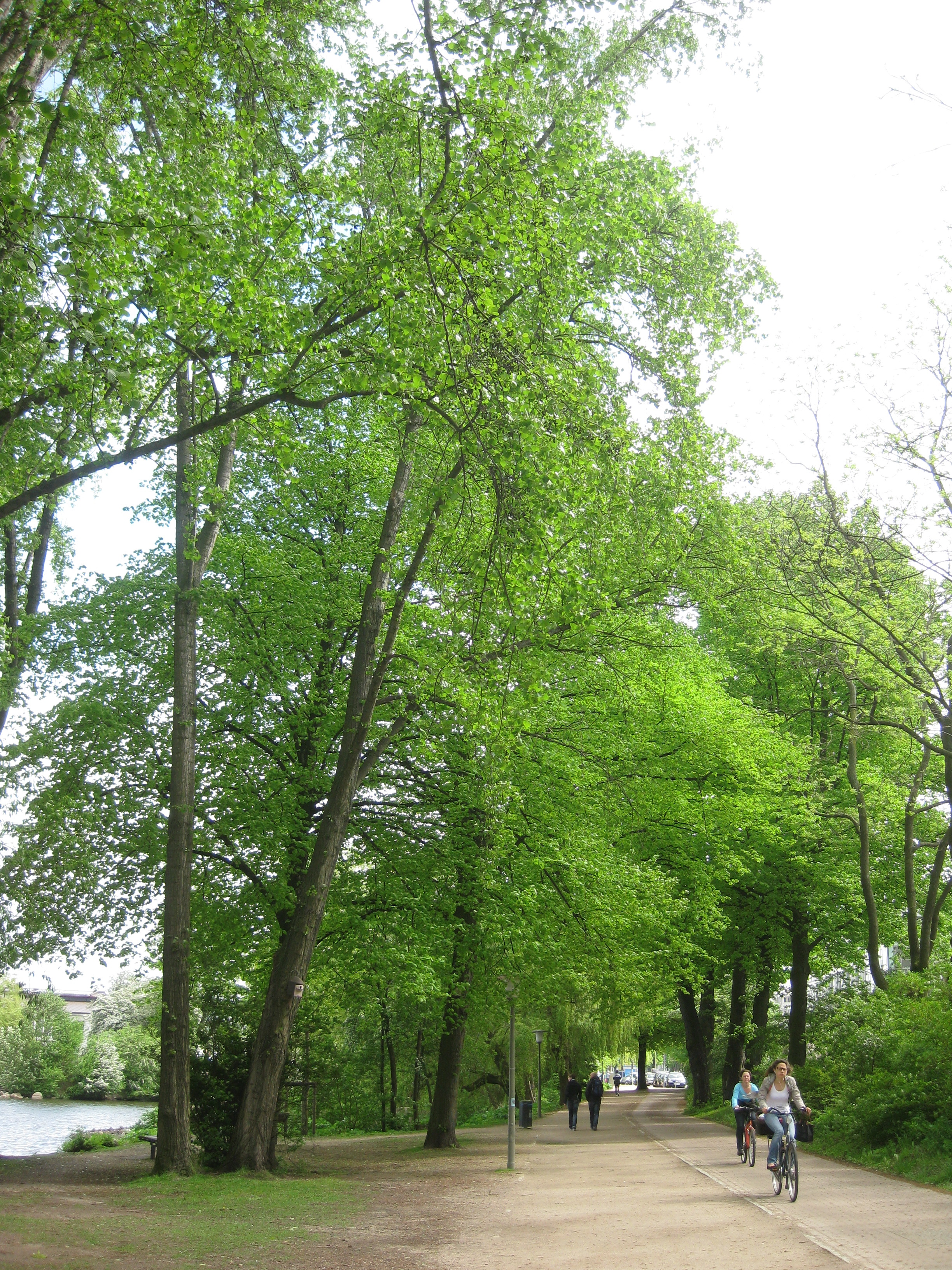 Really, really lovely.